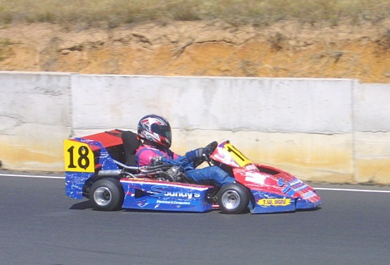 Warren McIlveen driving a Stockman MR2 Honda Superkart at Morgan Park Raceway.